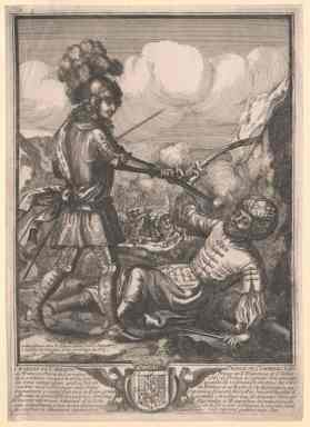 Engraving showing the Prince of Lorainne in the Great Turish War (1683-1699)